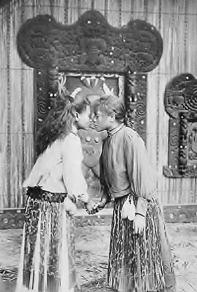 Image from a scanned copy of PD book